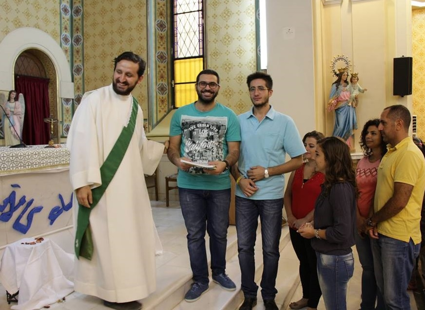 Syrian Christians in a church in Damascus 2017